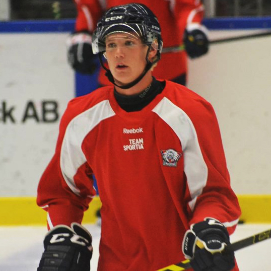 Gustav Forsling of Linköpings HC in 2014.